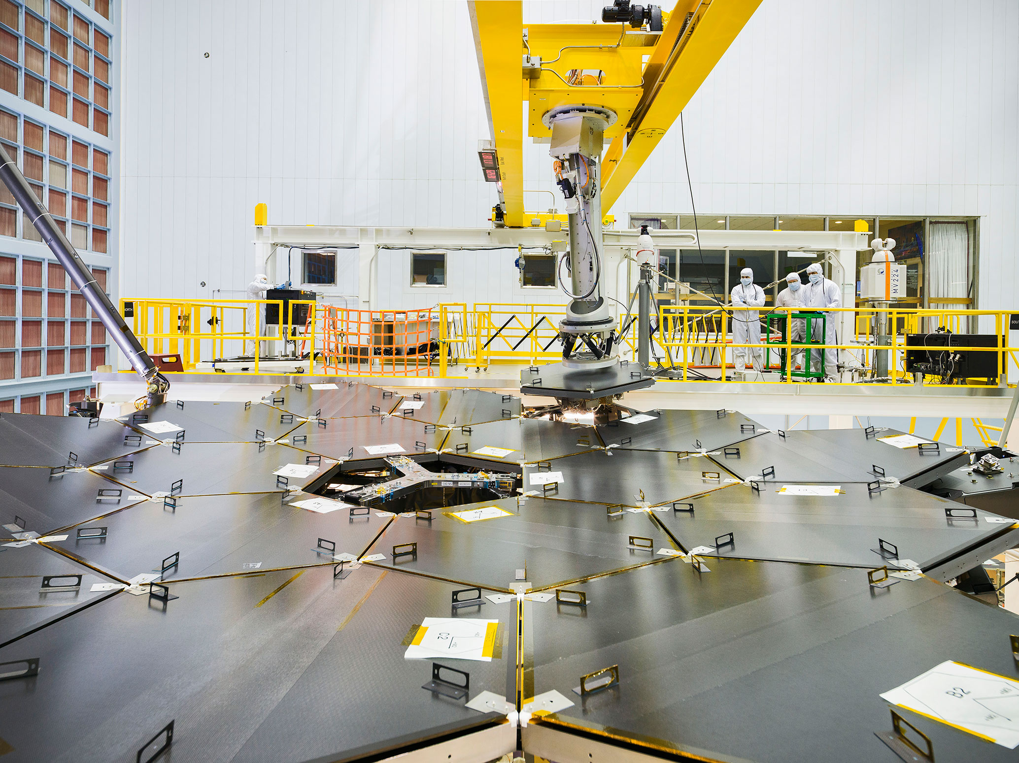 The 18th and final primary mirror segment is installed on what will be the biggest and most powerful space telescope ever launched. The final mirror installation Wednesday at NASA’s Goddard Space Flight Center in Greenbelt, Maryland marks an important milestone in the assembly of the agency’s James Webb Space Telescope. “Scientists and engineers have been working tirelessly to install these incredible, nearly perfect mirrors that will focus light from previously hidden realms of planetary atmospheres, star forming regions and the very beginnings of the Universe,” said John Grunsfeld, associate administrator for NASA’s Science Mission Directorate in Washington. “With the mirrors finally complete, we are one step closer to the audacious observations that will unravel the mysteries of the Universe.” Using a robotic arm reminiscent of a claw machine, the team meticulously installed all of Webb's primary mirror segments onto the telescope structure. Each of the hexagonal-shaped mirror segments measures just over 4.2 feet (1.3 meters) across -- about the size of a coffee table -- and weighs approximately 88 pounds (40 kilograms). Once in space and fully deployed, the 18 primary mirror segments will work together as one large 21.3-foot diameter (6.5-meter) mirror. Credit: NASA/Goddard/Chris Gunn Credits: NASA/Chris Gunn